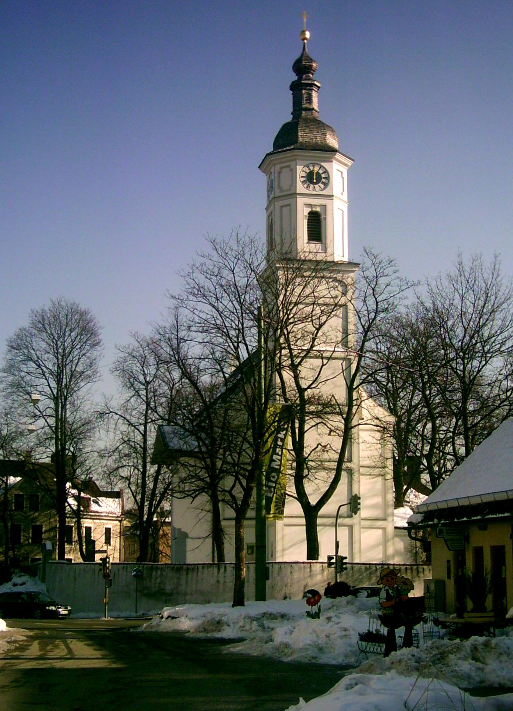 Old Church St. Margaret in Munich/Sendling seen from Stemmerhof